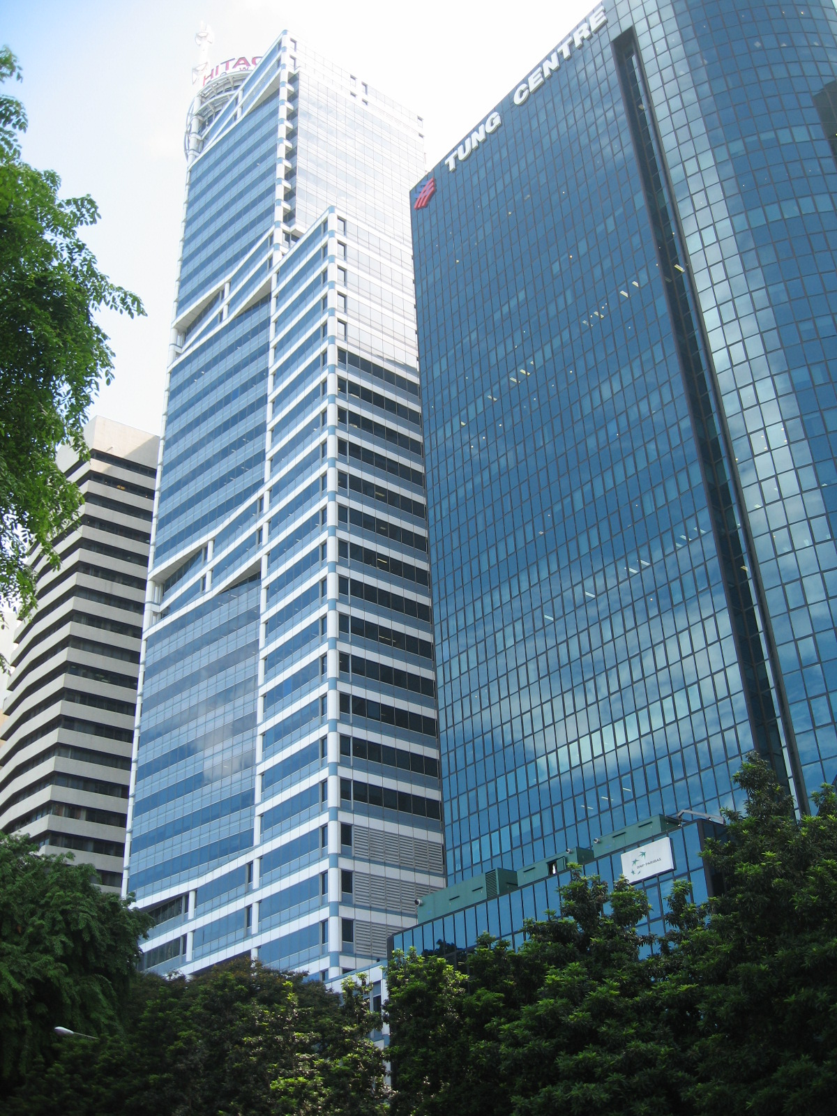 Hitachi Tower and Tung Centre.